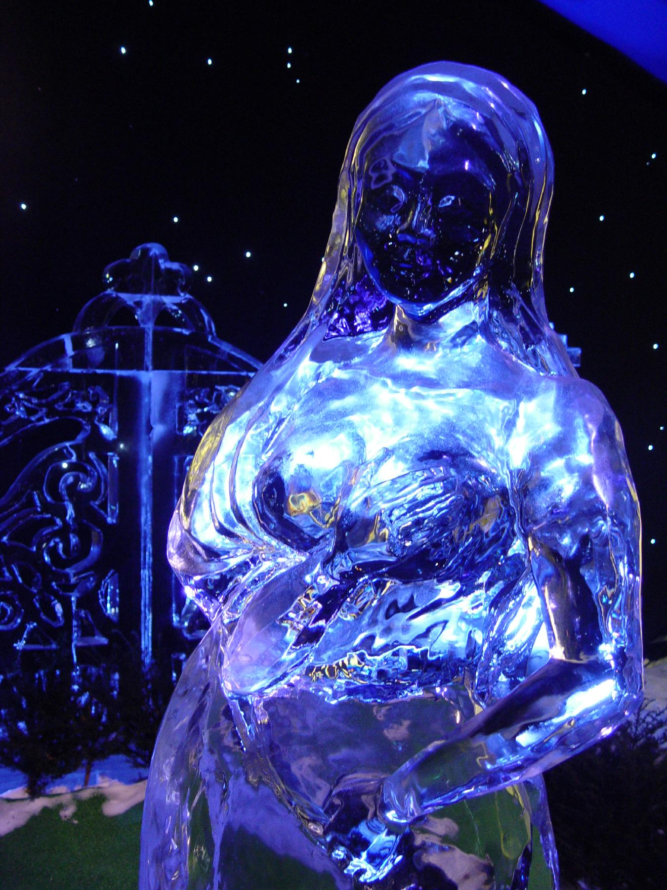 Ice woman